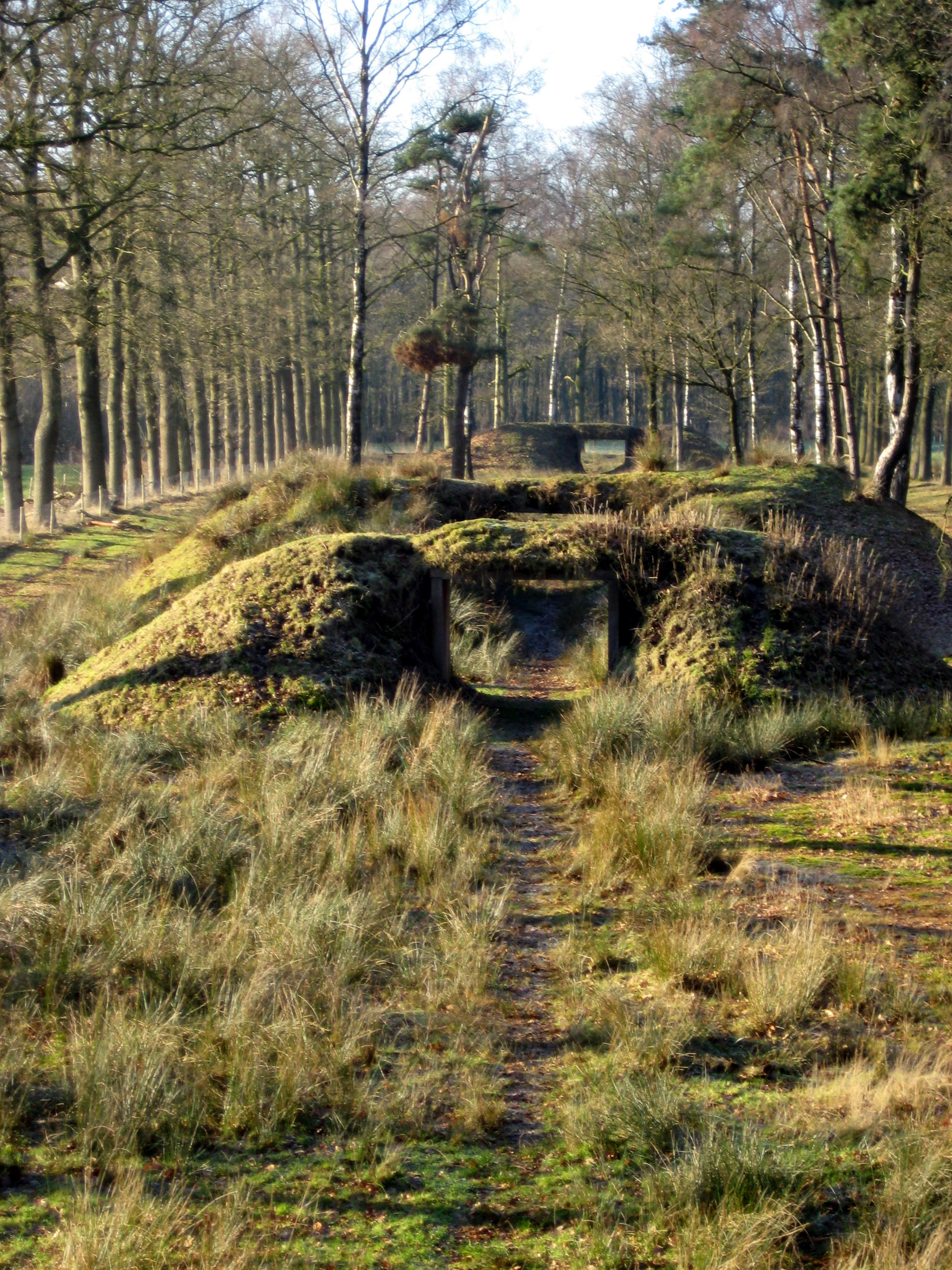 Historic shooting range (1901) in Scherpenzeel, the Netherlands.